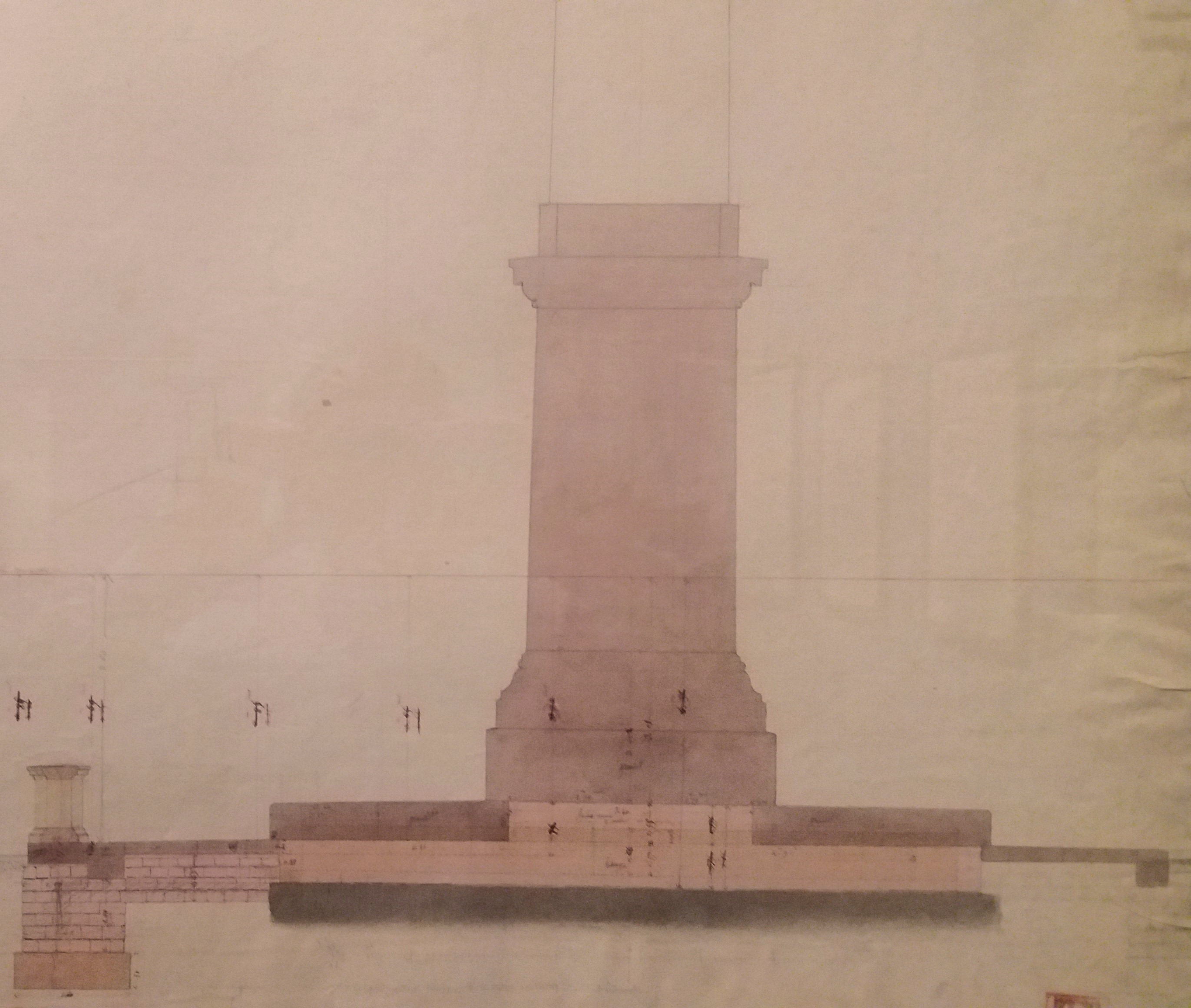 Place de la Concorde - Sockel Hittorf 1836, Sammlung Wallraf-Richartz